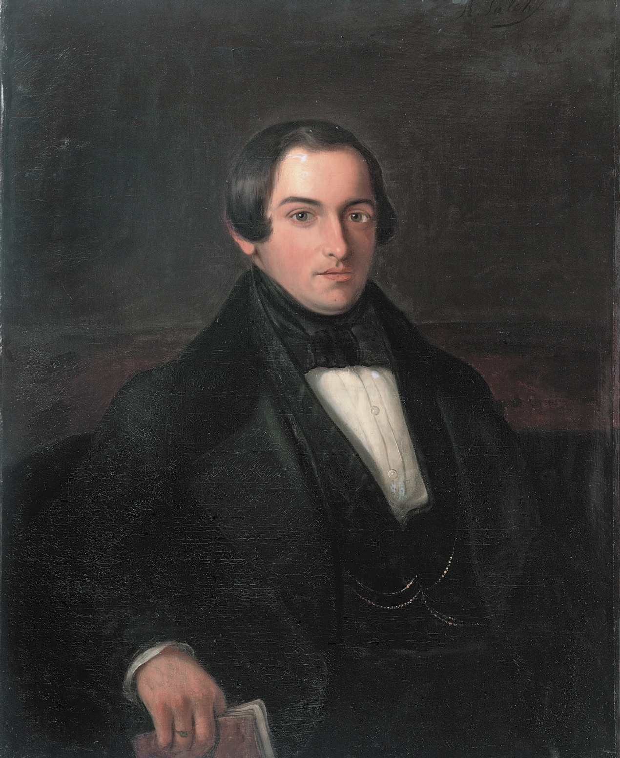 Portrait of Ary Prins (1816-1867)